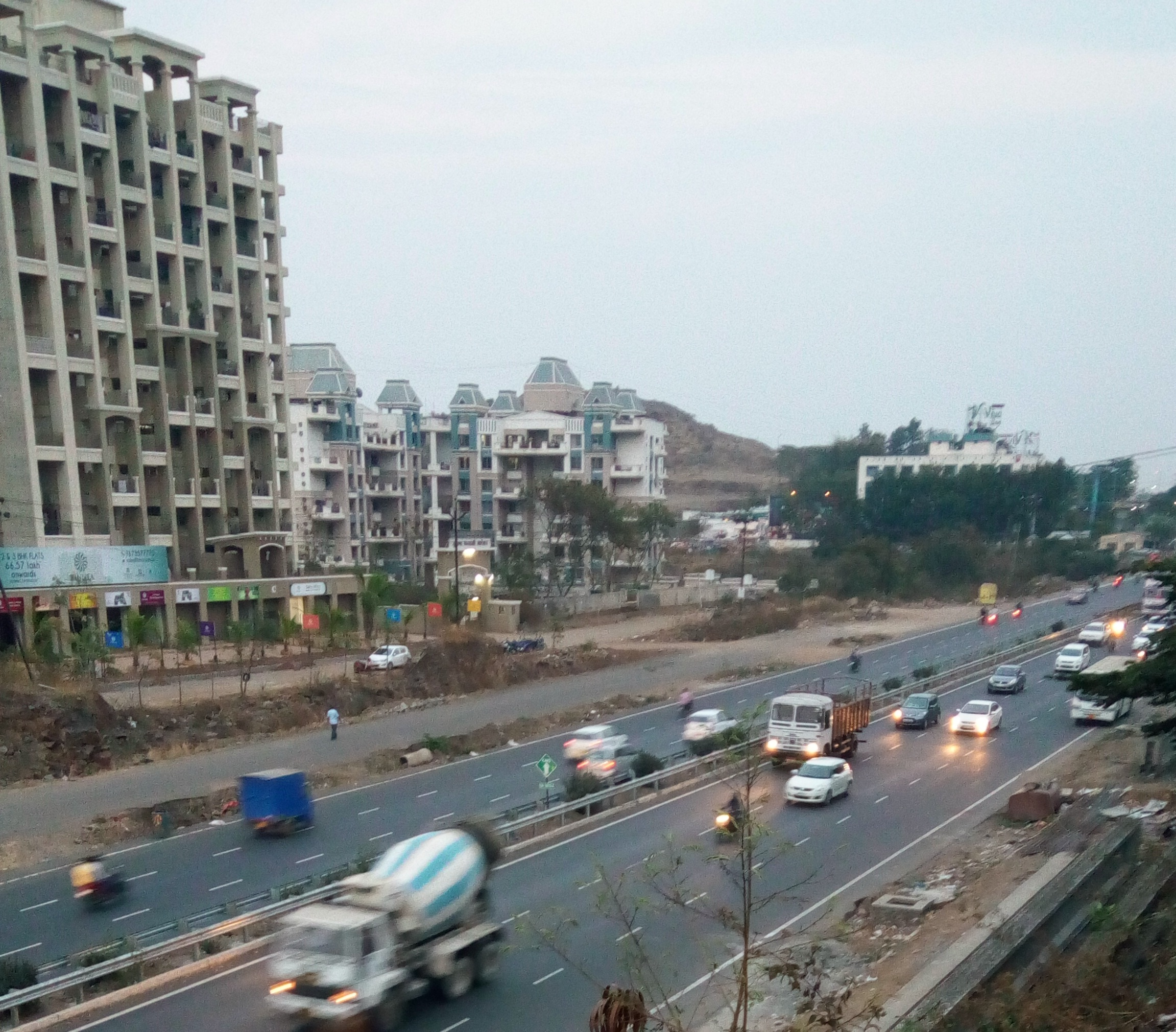 The Katraj-Dehu Road Westerly Bypass, a metropolitan highway in Pune, as seen from the Chandani Chowk. Circa February 2016